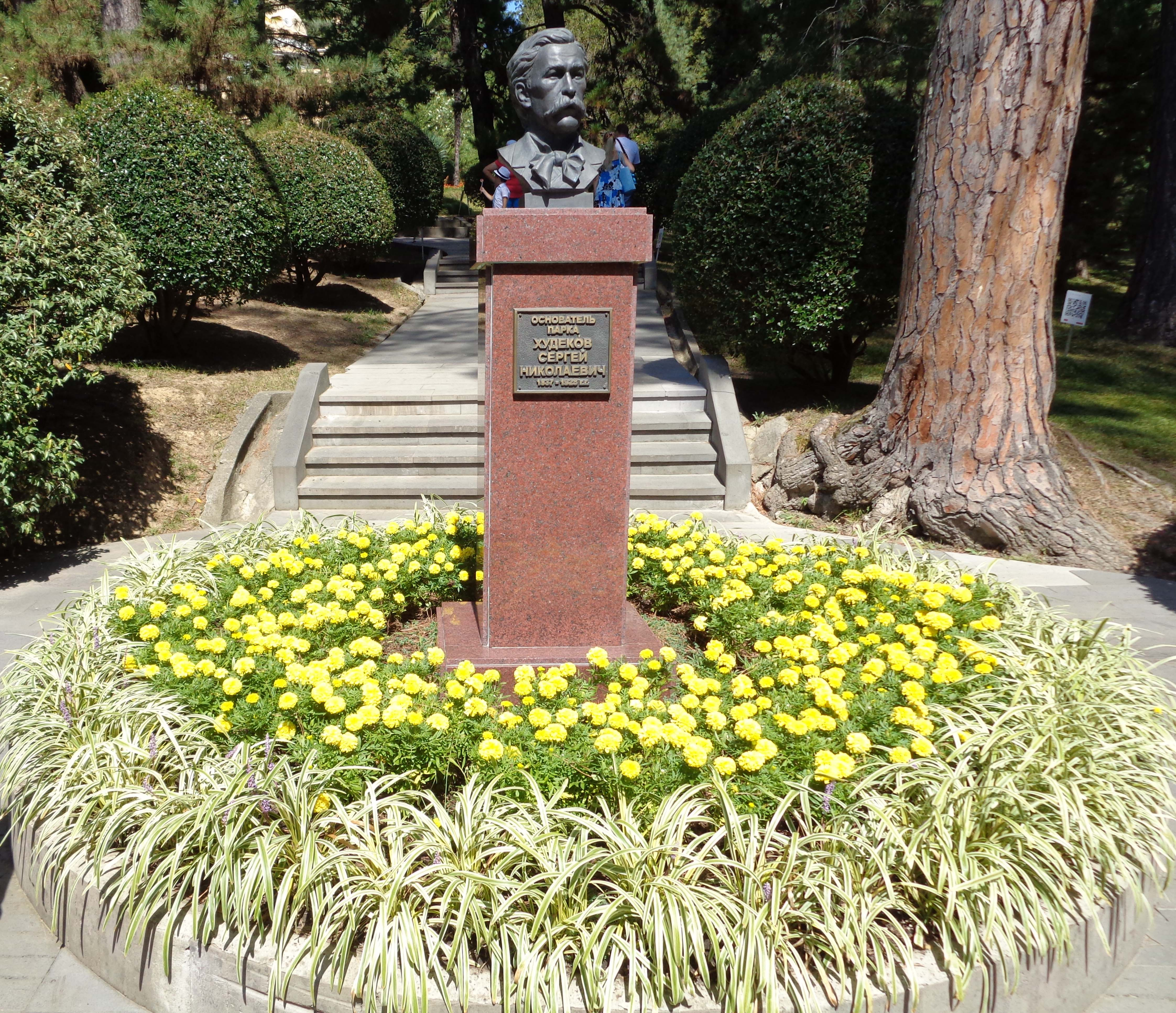 The monument of Sergueï Nikolaïevitch Khoudekov (founder of the park) is located in the park opposite the main entrance.